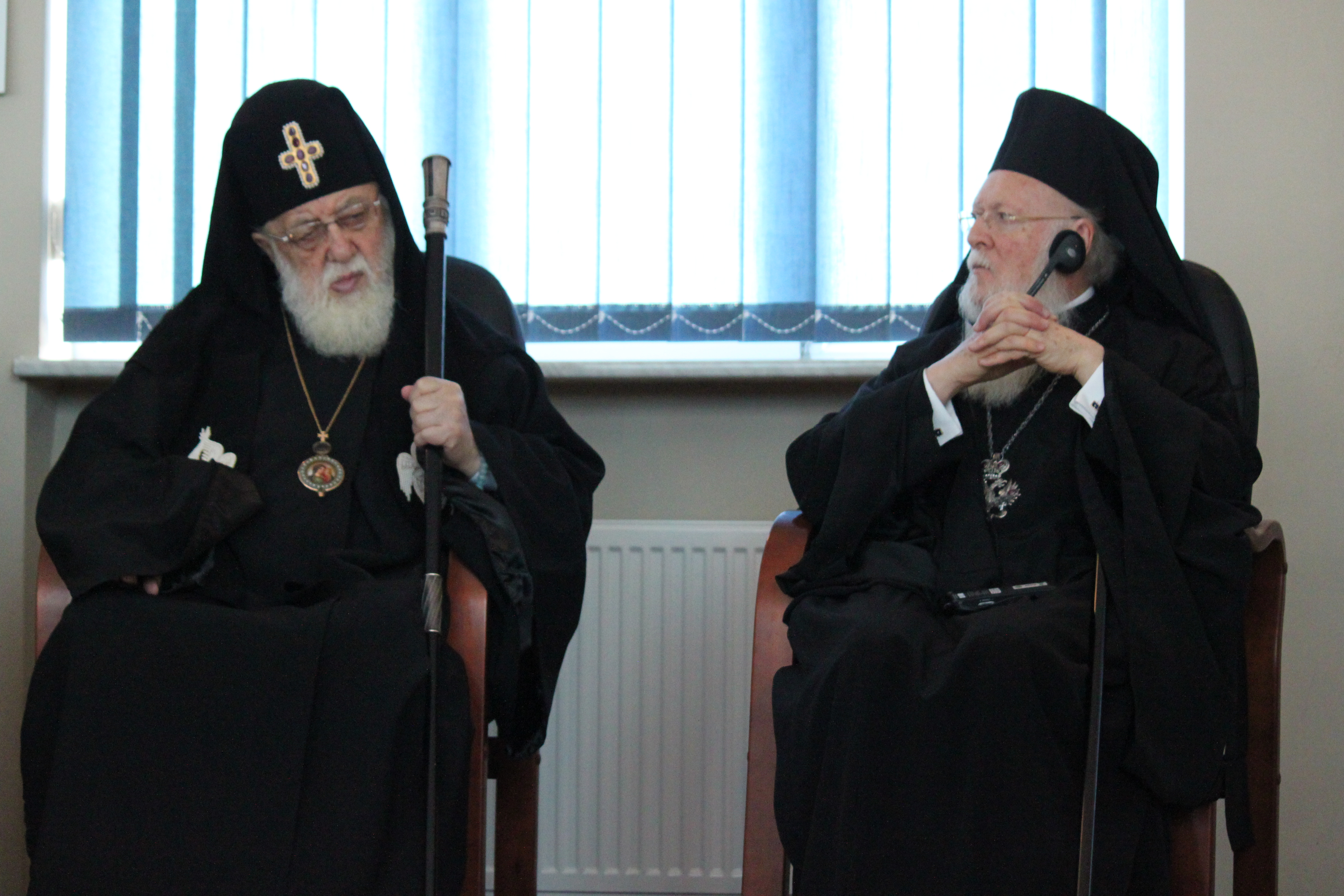 Bartholomew I is the 270th and current Archbishop of Constantinople and Ecumenical Patriarch, since 2 November 1991. Ilia II is the current Catholicos-Patriarch of All Georgia and the spiritual leader of the Georgian Orthodox Church. He is officially styled as Catholicos-Patriarch of All Georgia, the Archbishop of Mtskheta-Tbilisi and Metropolitan Bishop of Bichvinta and Tskhum-Abkhazia, His Holiness and Beatitude Ilia II.